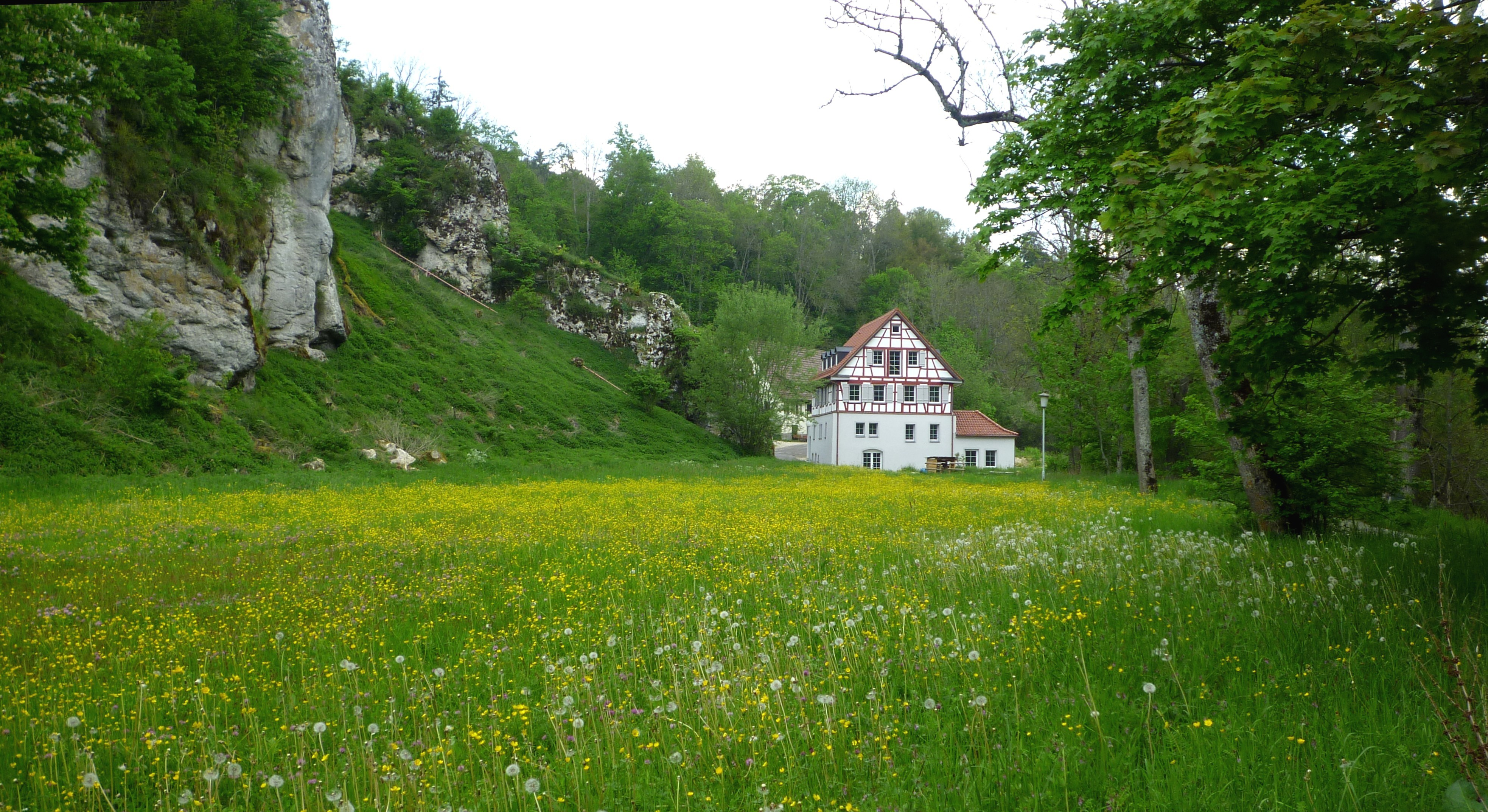 Bronnen, near Gammertingen, Swabian Alb. Former, broader riverbed of the Lauchert